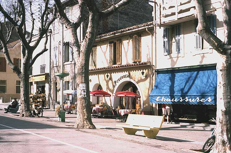 The town of Istres. Photographed by Adrian Pingstone. Prepared for Wikipedia by Adrian Pingstone in January 2004, and released to the public domain.